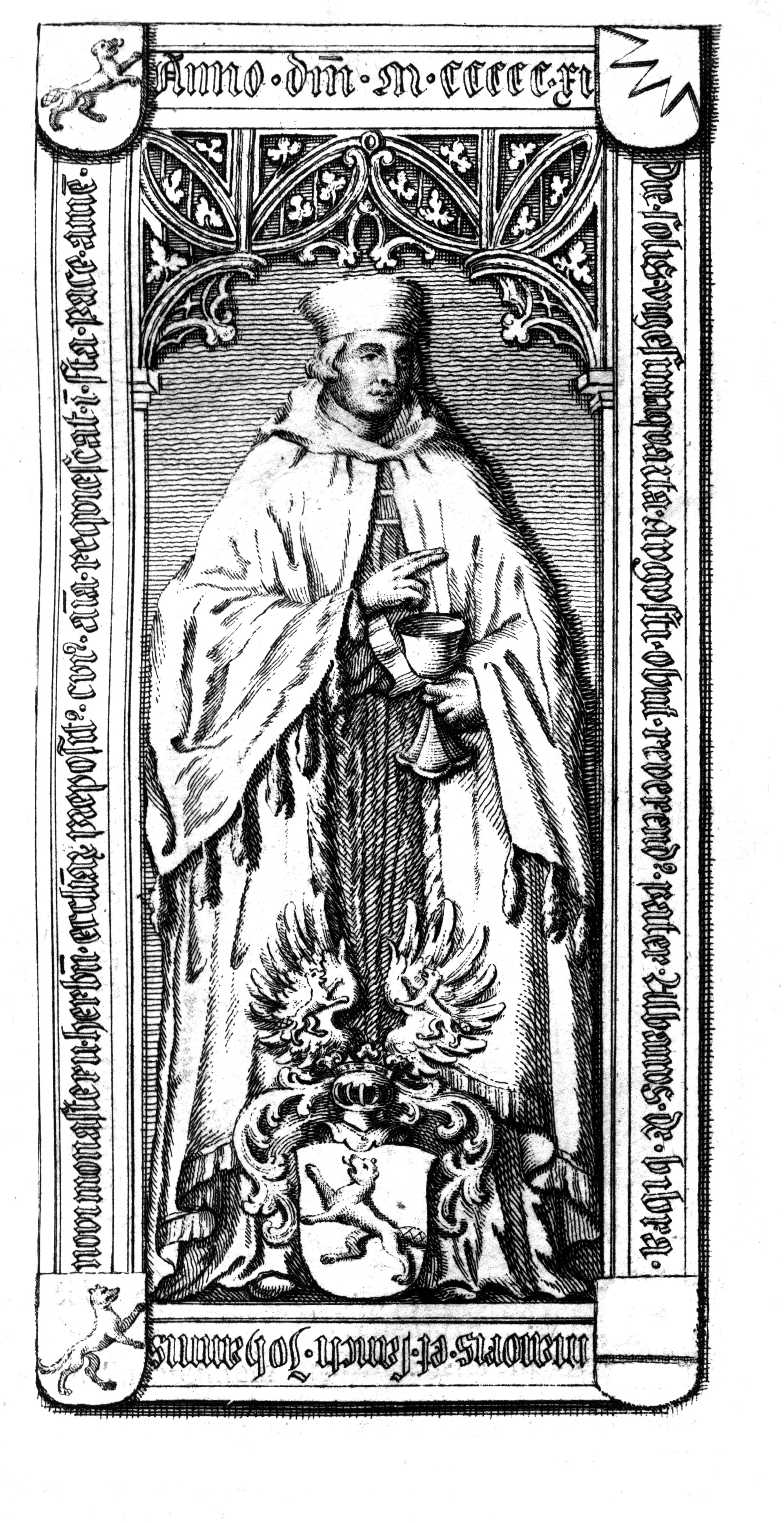 scan from original book